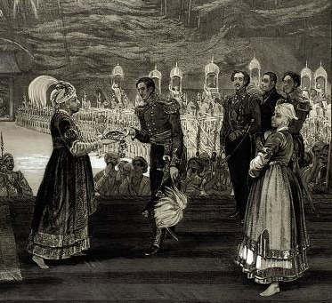 Heber Drury stands behind General William Cullen handing a letter to King Uthram Thirunal Marthanda Varma (on left). Crop from File:Travancore Durbar.jpg with The Durbar of His Highness the Maha Raja of Travancore, for the Reception by His Highness the Maha Raja, of Her Majesty Queen Victoria's letter 27th November 1851; with the descriptive key plate of the Durbar